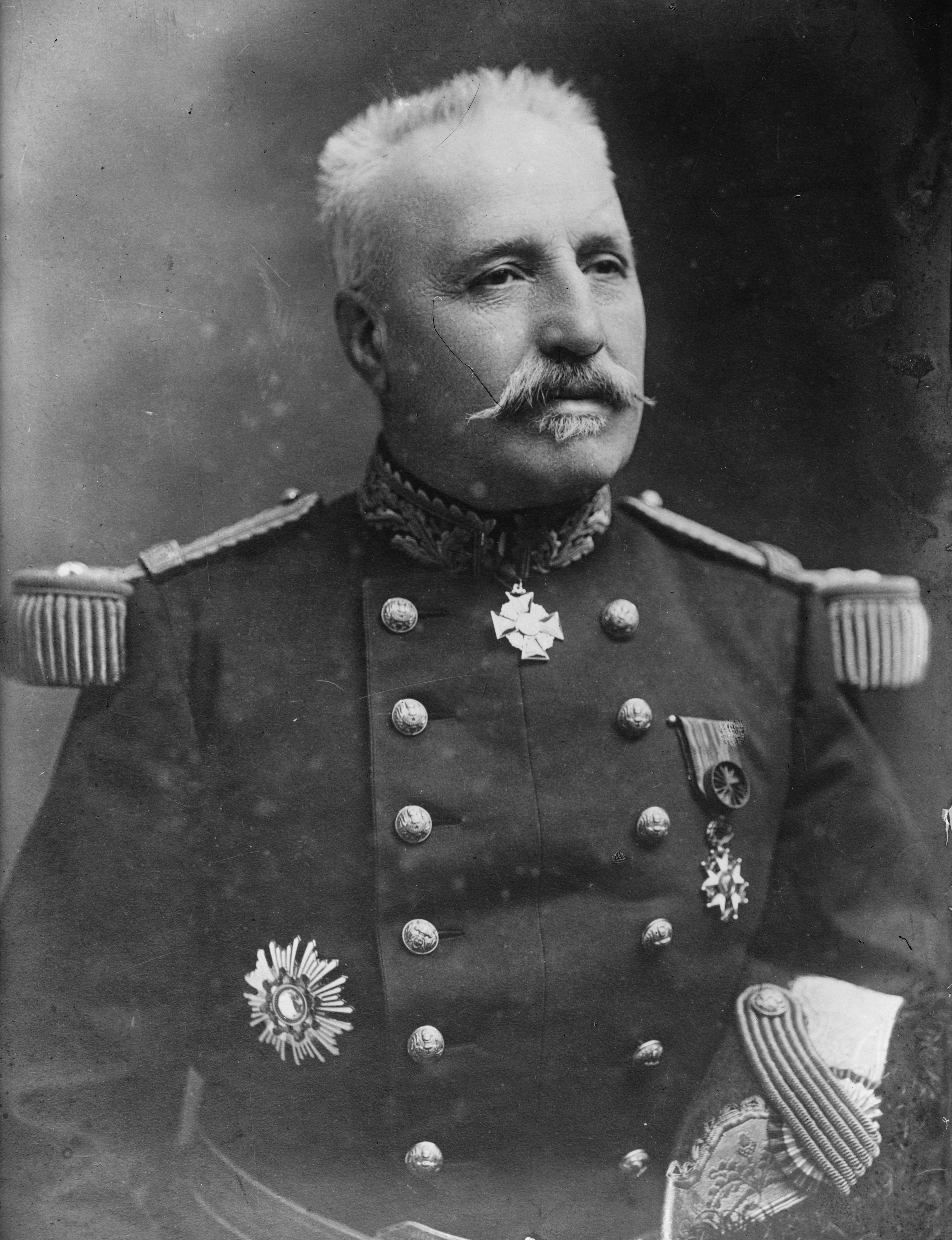 Title: Gen. Castelneau [i.e., Castelnau] Abstract/medium: 1 negative : glass ; 5 x 7 in. or smaller.